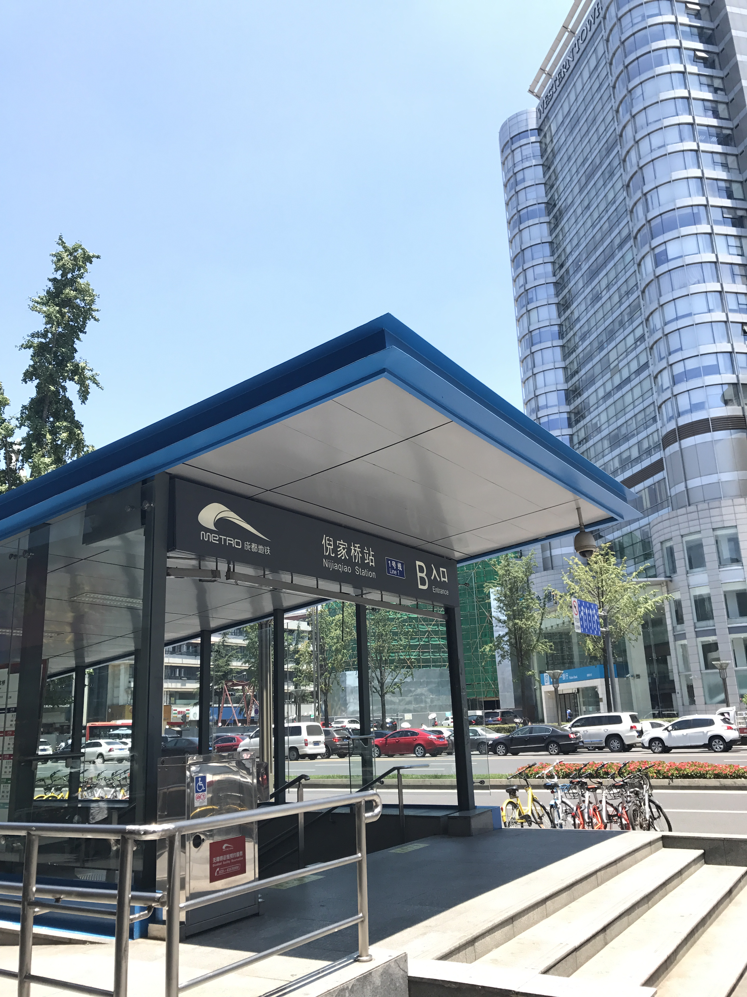 Chengdu Metro Nijiaqiao Station Entrance B